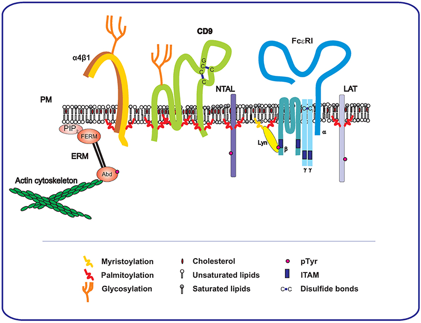 Tetraspanin-enriched domain.